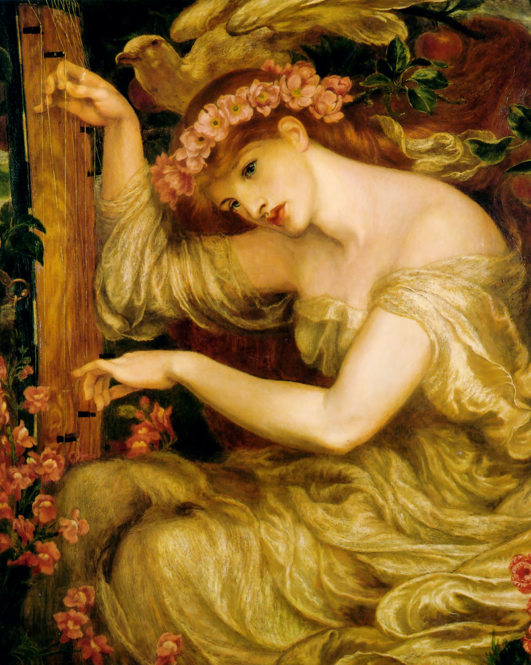 William Michael Rossetti described the picture thus: "The idea is that of a Siren, or Sea-Fairy, whose lute summons a sea-bird to listen, and whose song will soon prove fatal to some fascinated mariner". (Rossetti Archive)